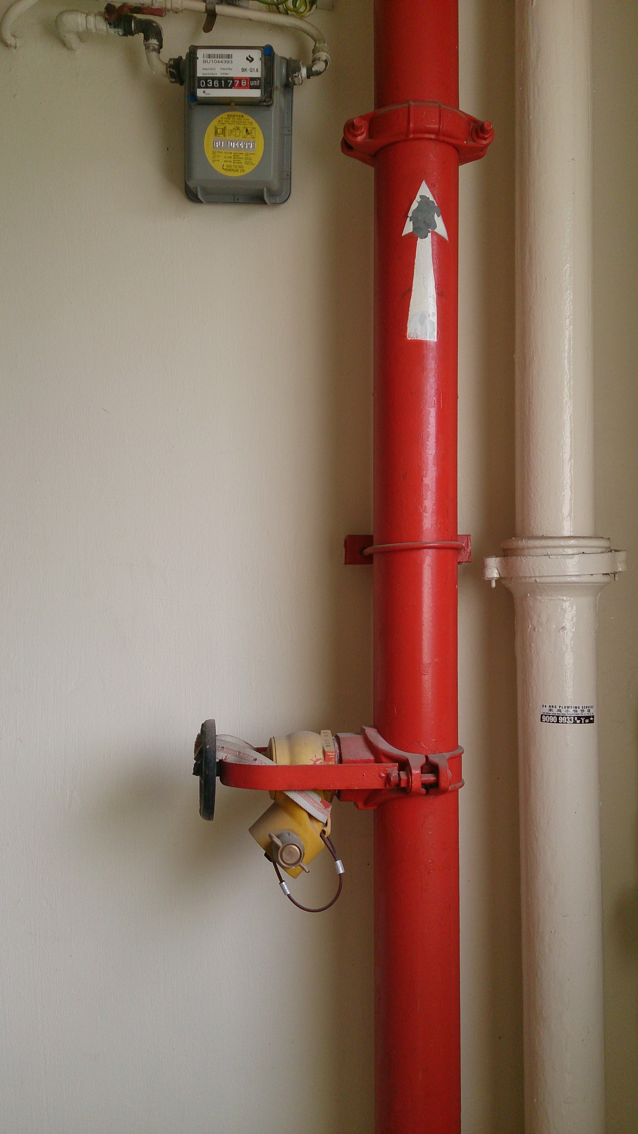 dry riser outlet found outside flats in Singapore public estates